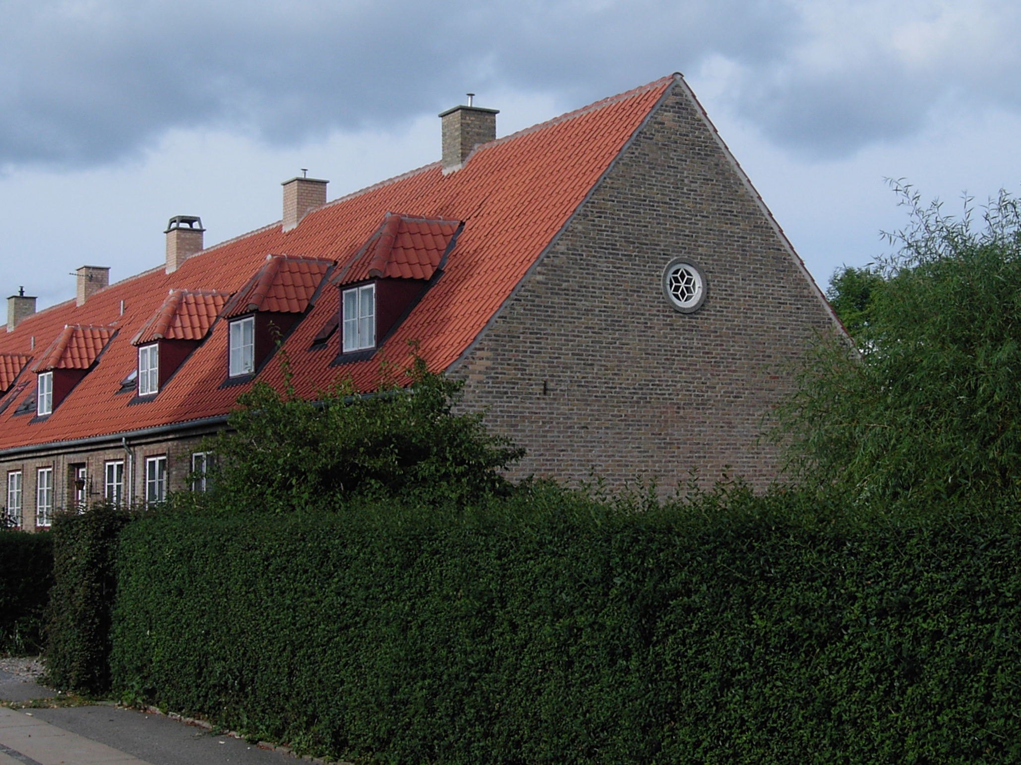 Terraced houses at Rygårds Allé 56-94 & 79-119 in the Studiebyen development in Hellerup in borthern Copenhagen, Denmark. Architects: Peter Nielsen, August Rasmussen og V. Rørdam Jensen.